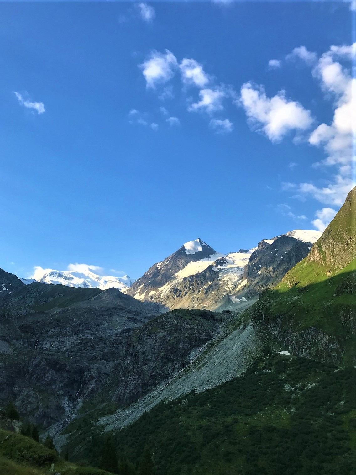 Pointe de Boveire on summer 2020 on central